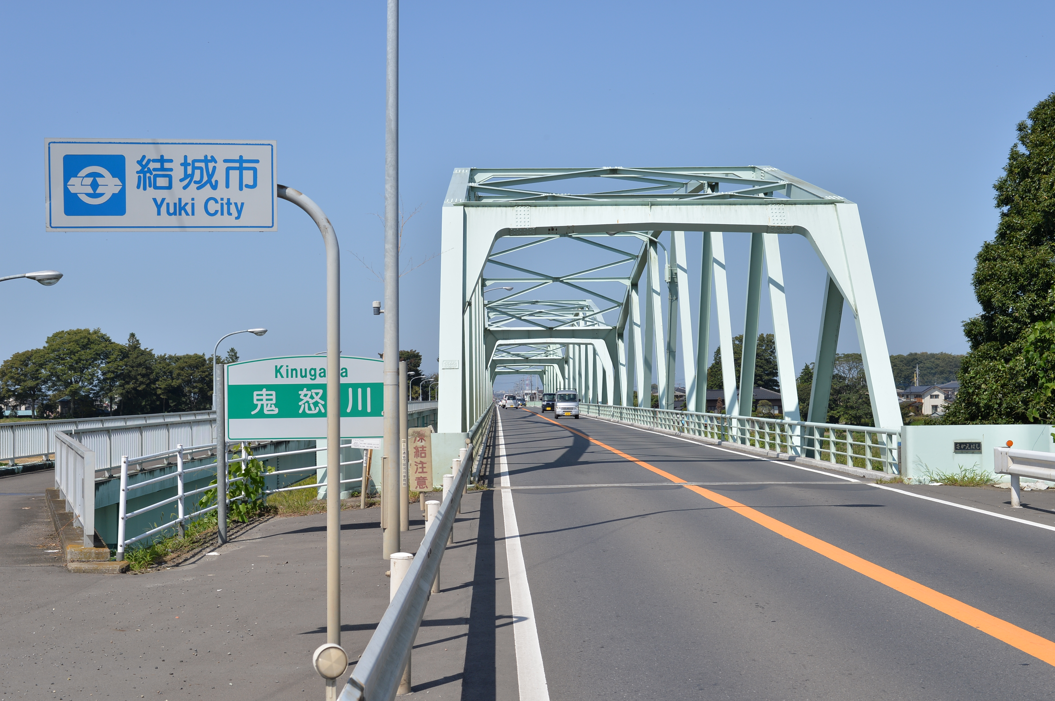 Sakae Bridge over the Kinu River on the Ibaraki Prefectural Road Route 15